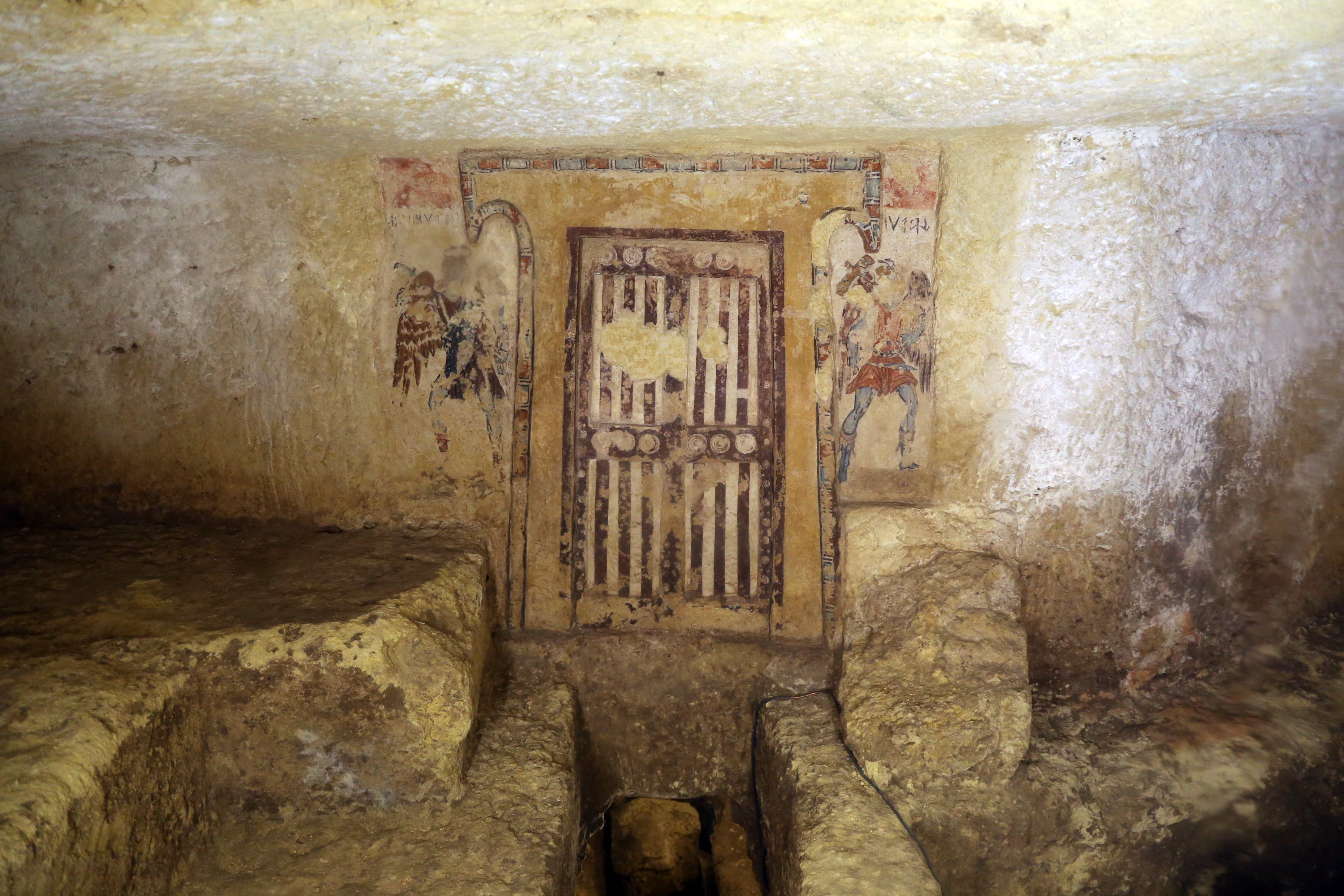 Necropoli dei Monterozzi (Tarquinia)